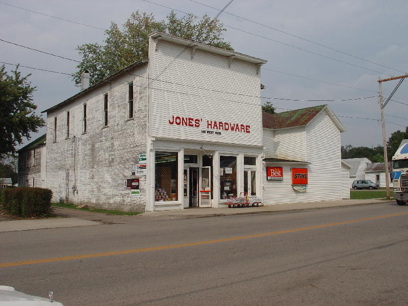 Photo I took